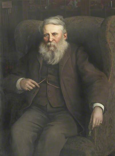 Portrait of Richard Saul Ferguson (1837–1900), English barrister and antiquarian.